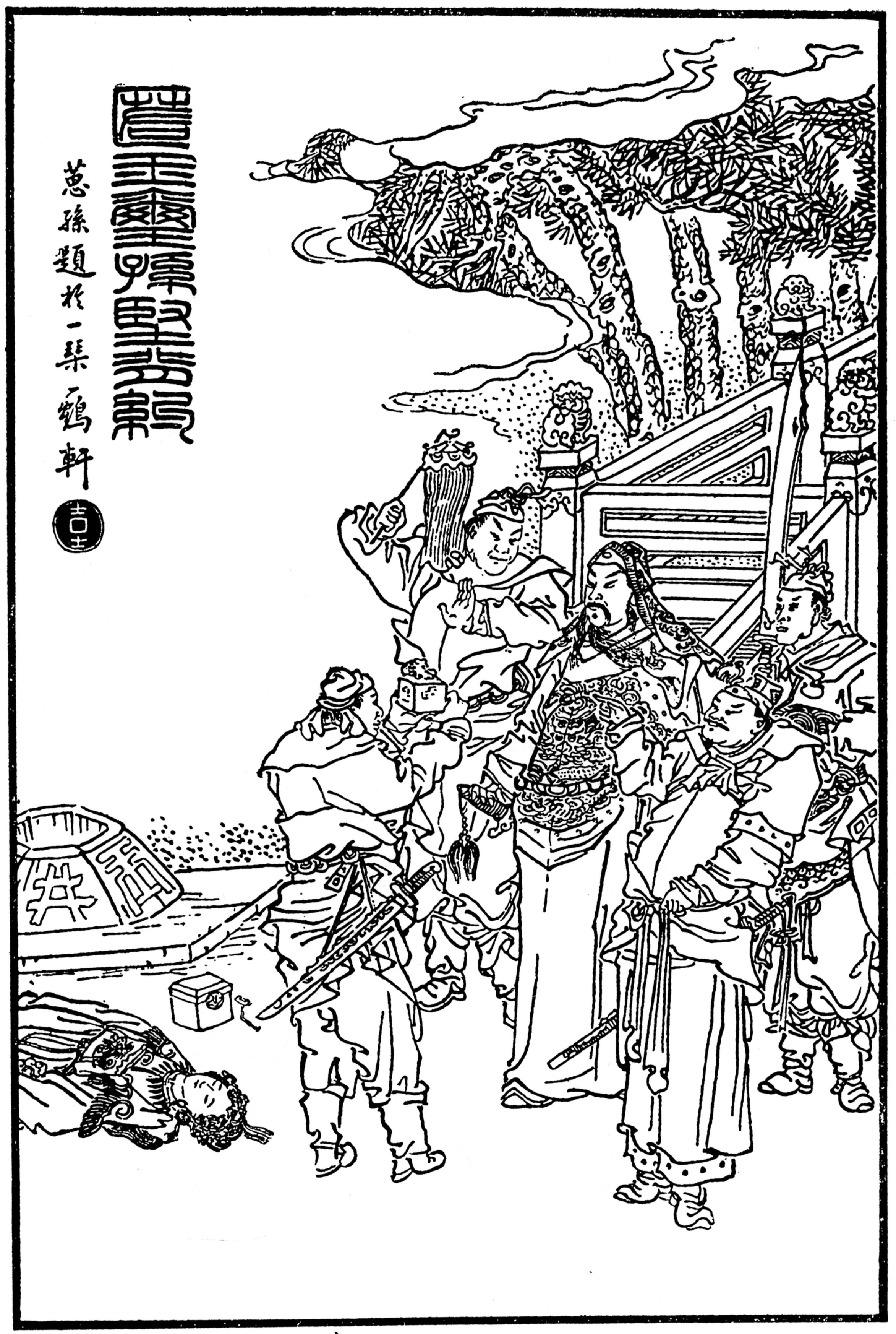 The warlord Sun Jian finds one of the emperor's jade seals in a well south of Luoyang.